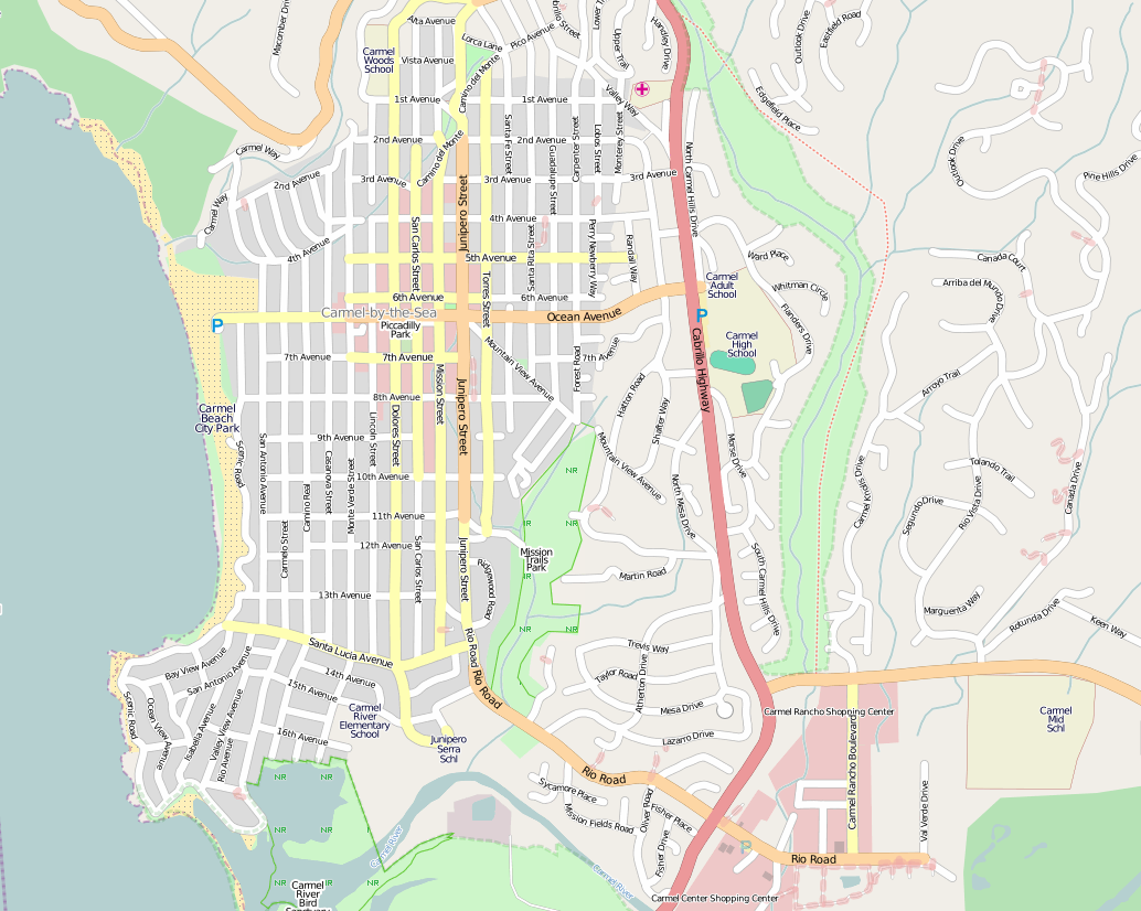 Map of Carmel, California Geographic limits of the map: N: 36.565° S: 36.537° W: -121.938° E: -121.894°